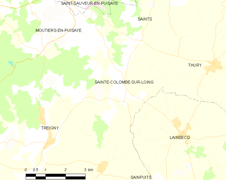 Map of French municipality Sainte-Colombe-sur-Loing